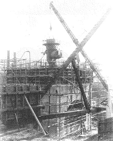 Pneumatic caisson used at Moji side construction site of Kammon railway tunnel